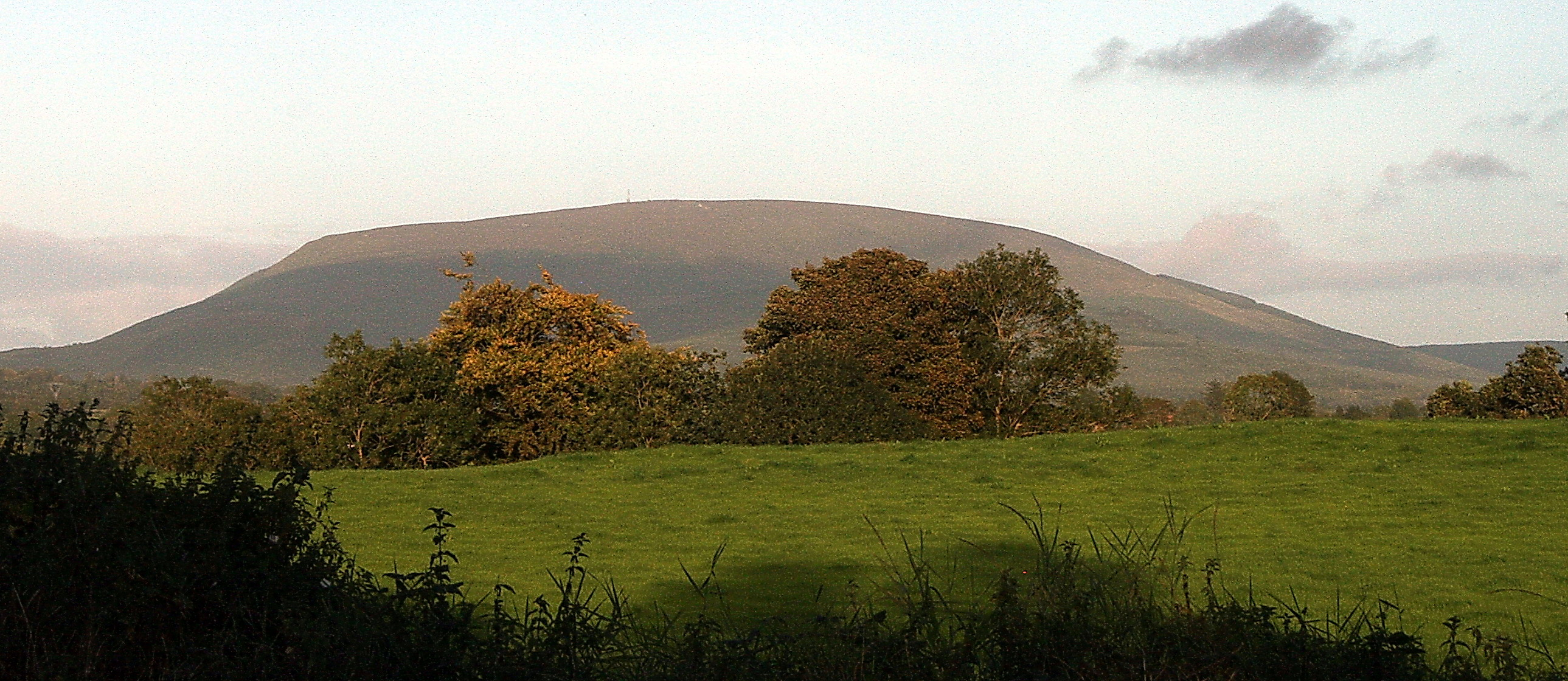 A rather poor picture of Keeper Hill in County Tipperary.